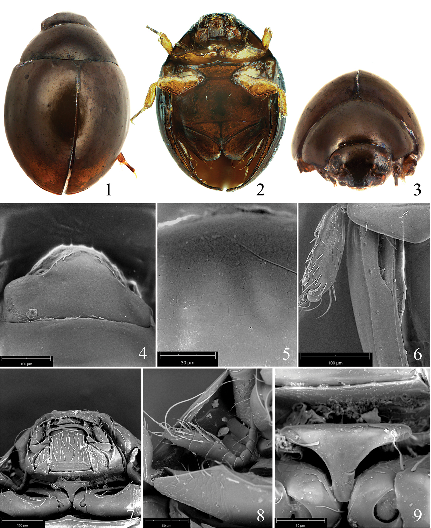 Figures 1–9; Sphaerius minutus sp. n. 1–3 habitus (1 dorsal view 2 ventral view 3 frontal view) 4 dorsal view of head 5 micro-reticulation on pronotum 6 epipleuron 7 ventral view of head 8 antenna 9 prosternal process.